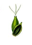 Del av illsutration Image:Cleaned-Illustration_Carex_flava.jpg